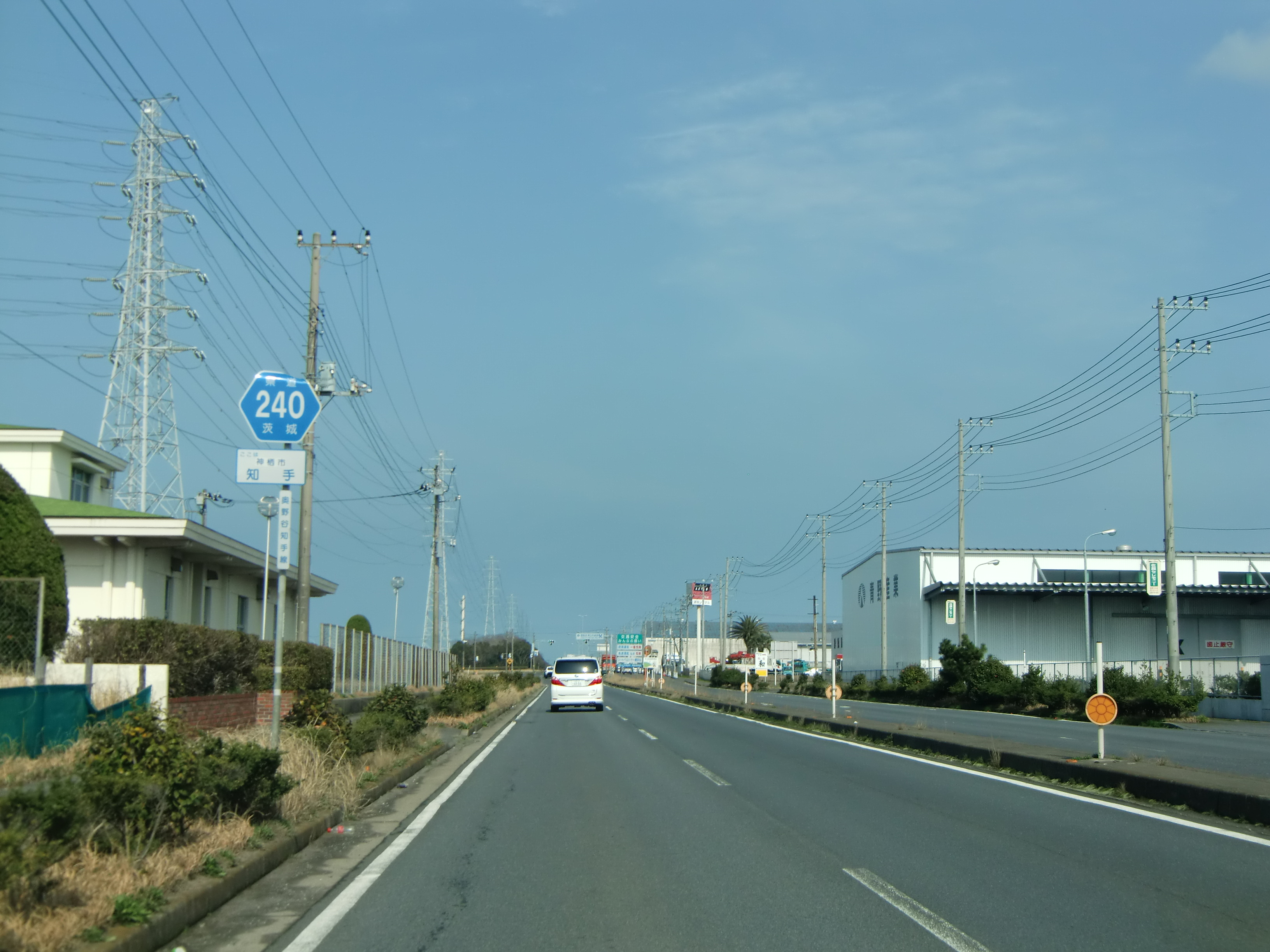 Ibaraki prefectural road 240 (Okunoya-Shitte line) in Shitte, Kamisu city, Ibaraki prefecture, Japan.